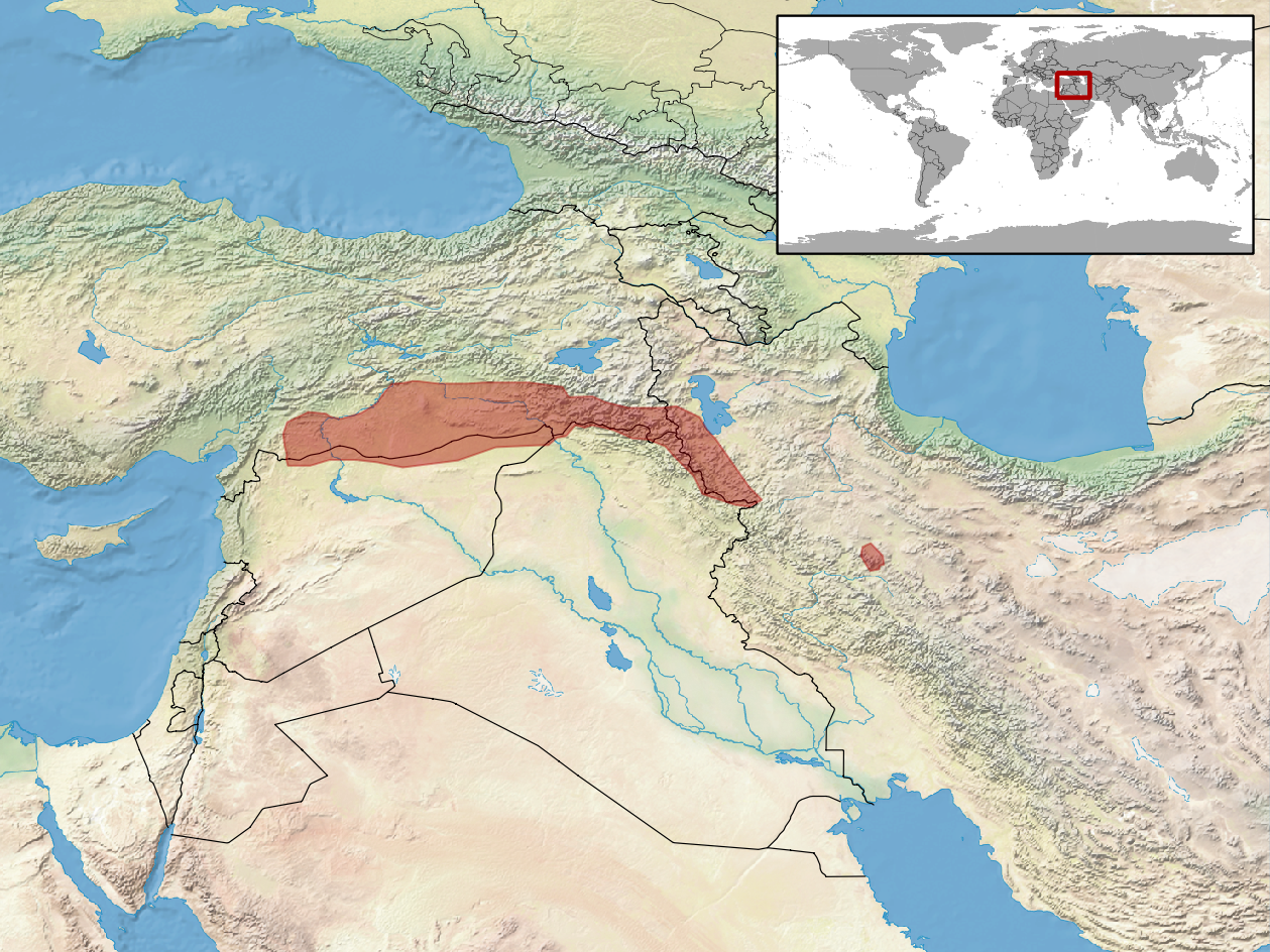 geographic distribution of Mediodactylus heterocercum syn. Cyrtopodion heterocercum (Native: Iran, Islamic Republic of; Iraq; Syrian Arab Republic; Turkey)